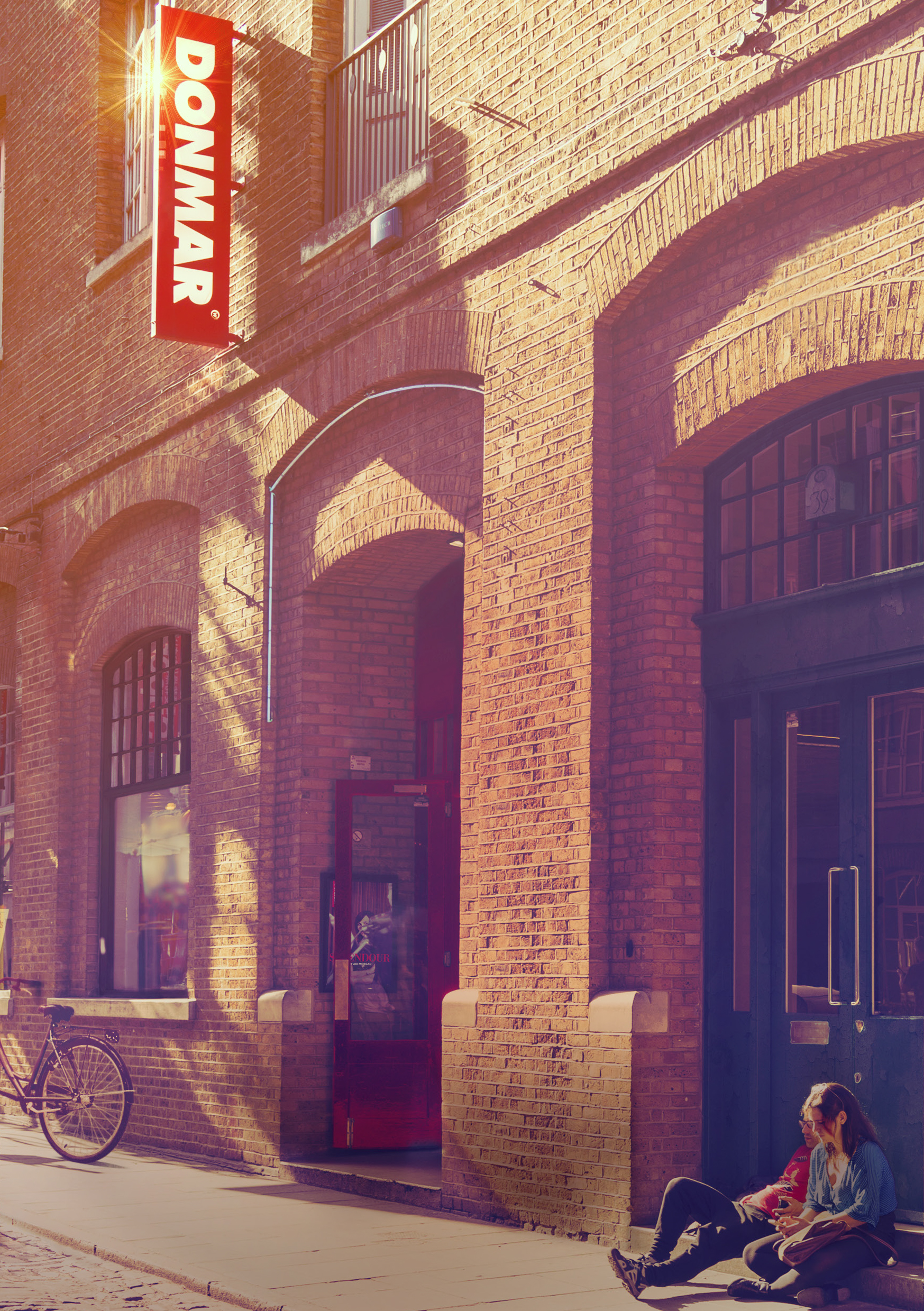 Donmar Warehouse 2015 Season Image